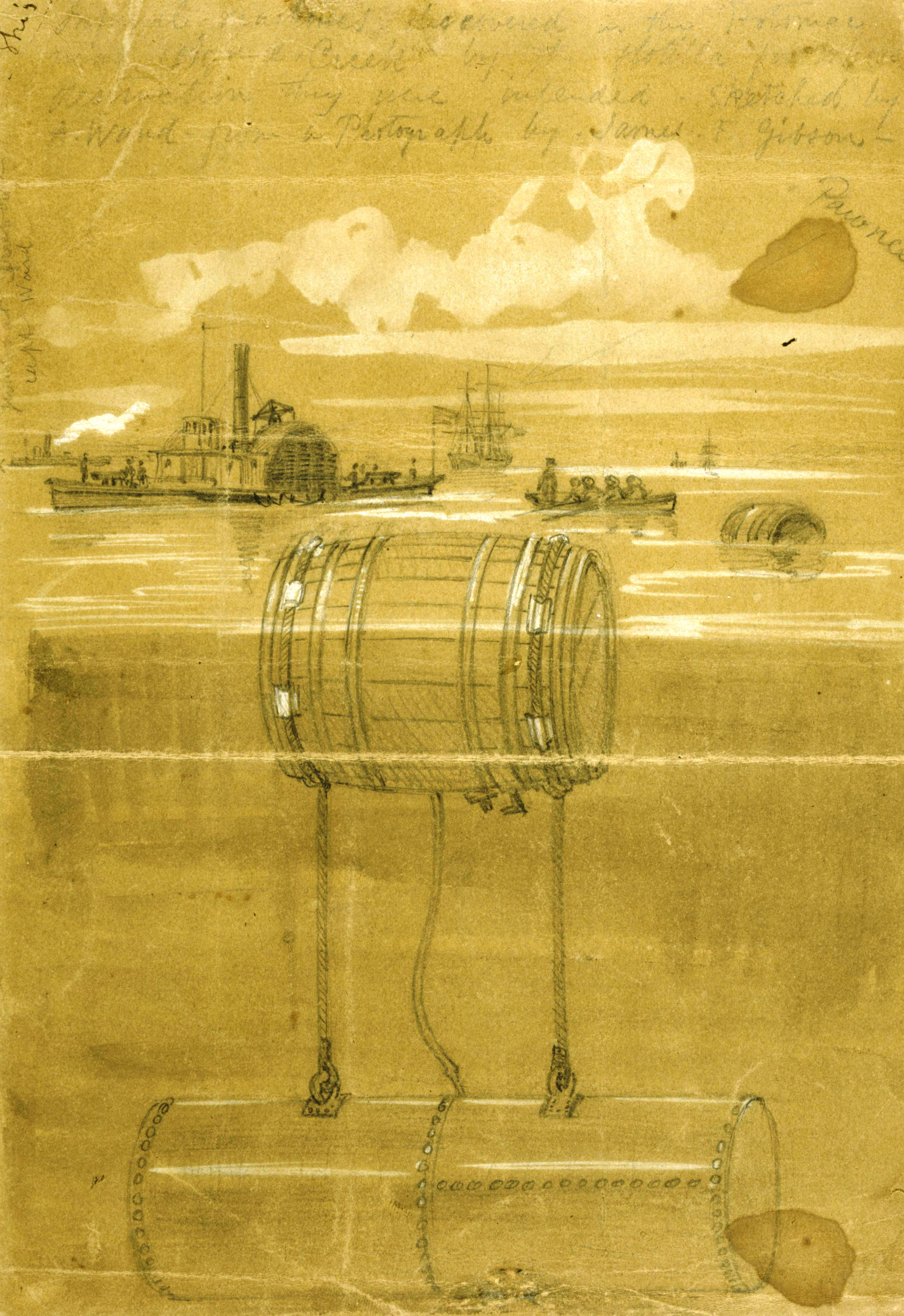 Inscribed above image: Infernal machines discovered in the Potomac [near Aquia] Creek by the flotilla for whose destruction they were intended. Sketched by A. Waud from a photograph by James F. Gibson. Inscribed right with arrow leading to a frigate: Pawnee. Inscribed vertically left margin: gunboat Freeborn / Capt Ward. Published with descriptive text in: New York Illustrated News, July 22, 1861, p. 177 (Cover).